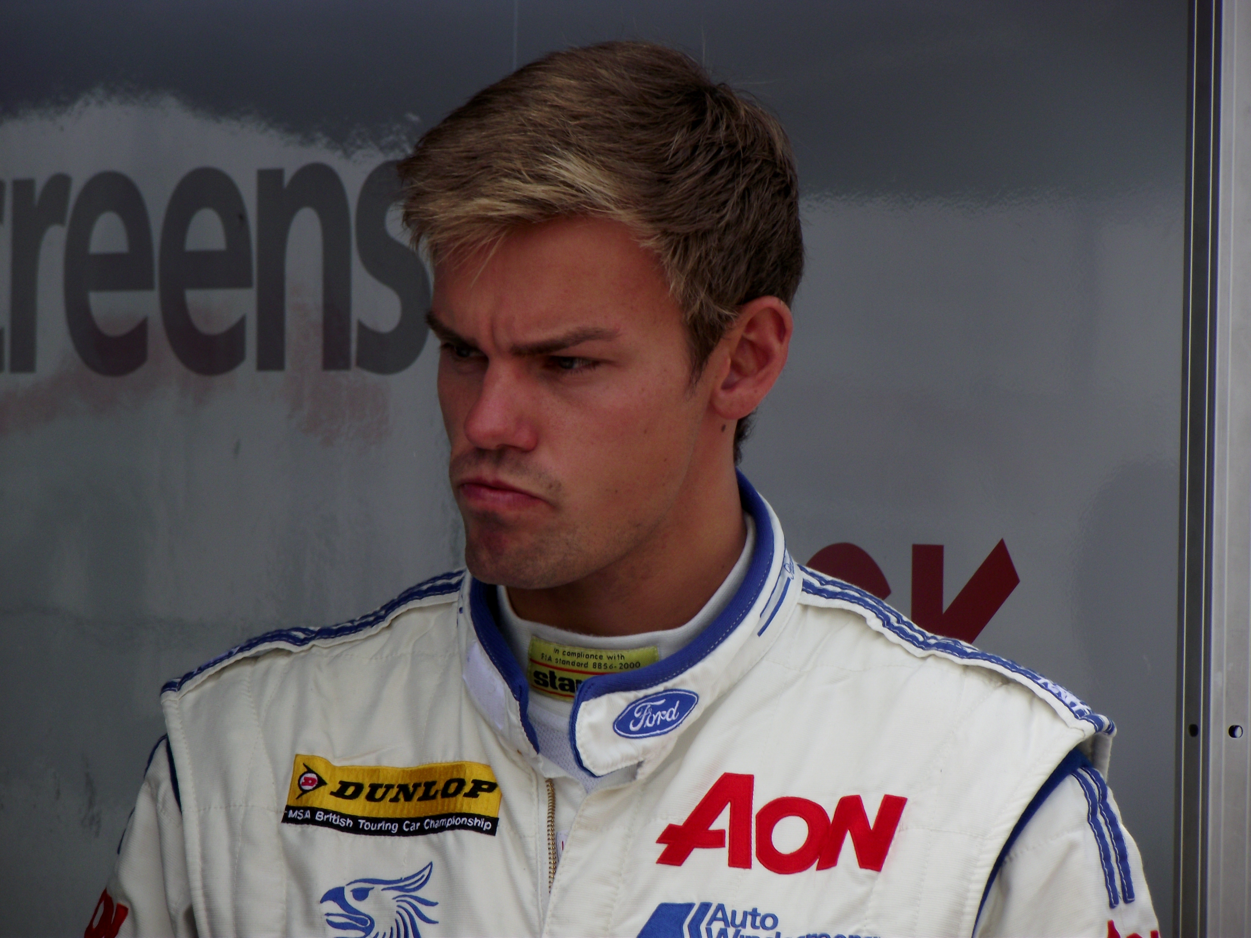 Tom Chilton in the paddock at Oulton Park, BTCC practice day 4th June 2011.